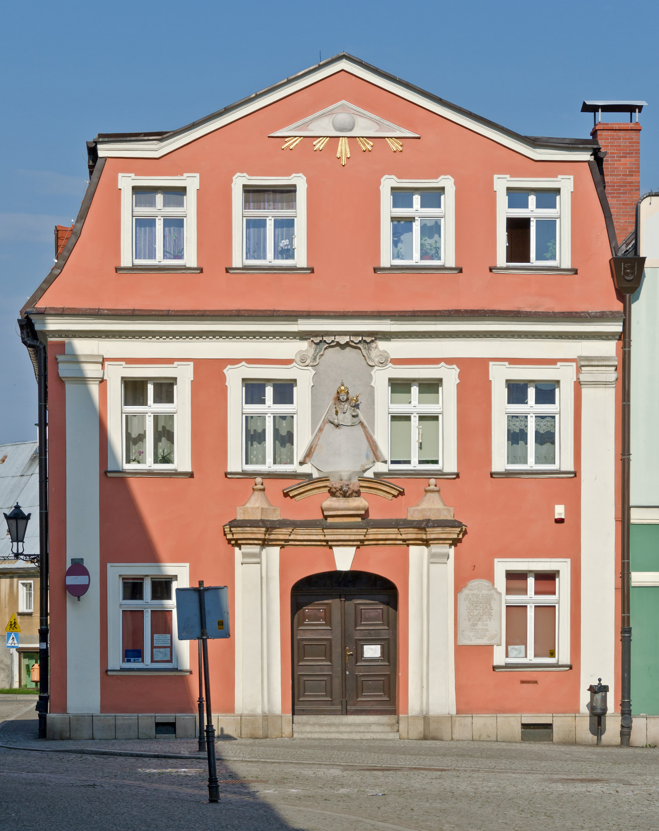 Klahr House in Lądek-Zdrój